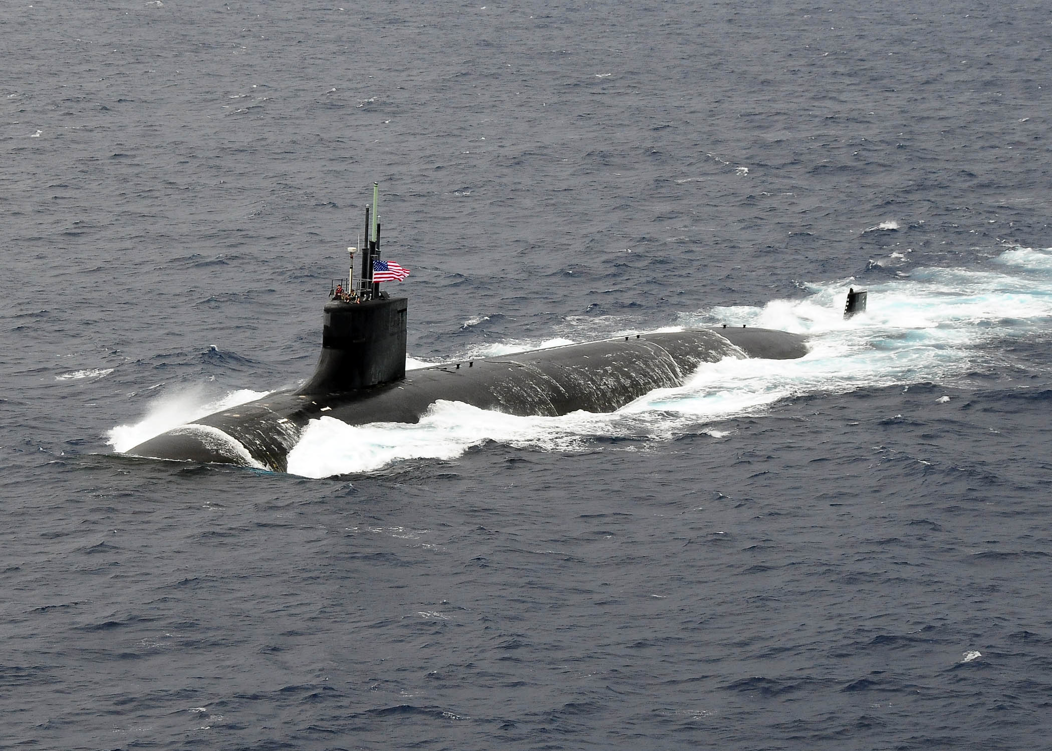 PACIFIC OCEAN (Nov. 17, 2009) The Seawolf-class attack submarine USS Connecticut (SSN 22) is underway in the Pacific Ocean. Ships from the U.S. Navy and Japan Maritime Self-Defense Force are participating in Annual Exercise (ANNUALEX 21G), a bilateral exercise designed to enhance the capabilities of both naval forces. (U.S. Navy photo by Mass Communication Specialist 1st Class John M. Hageman/Released)